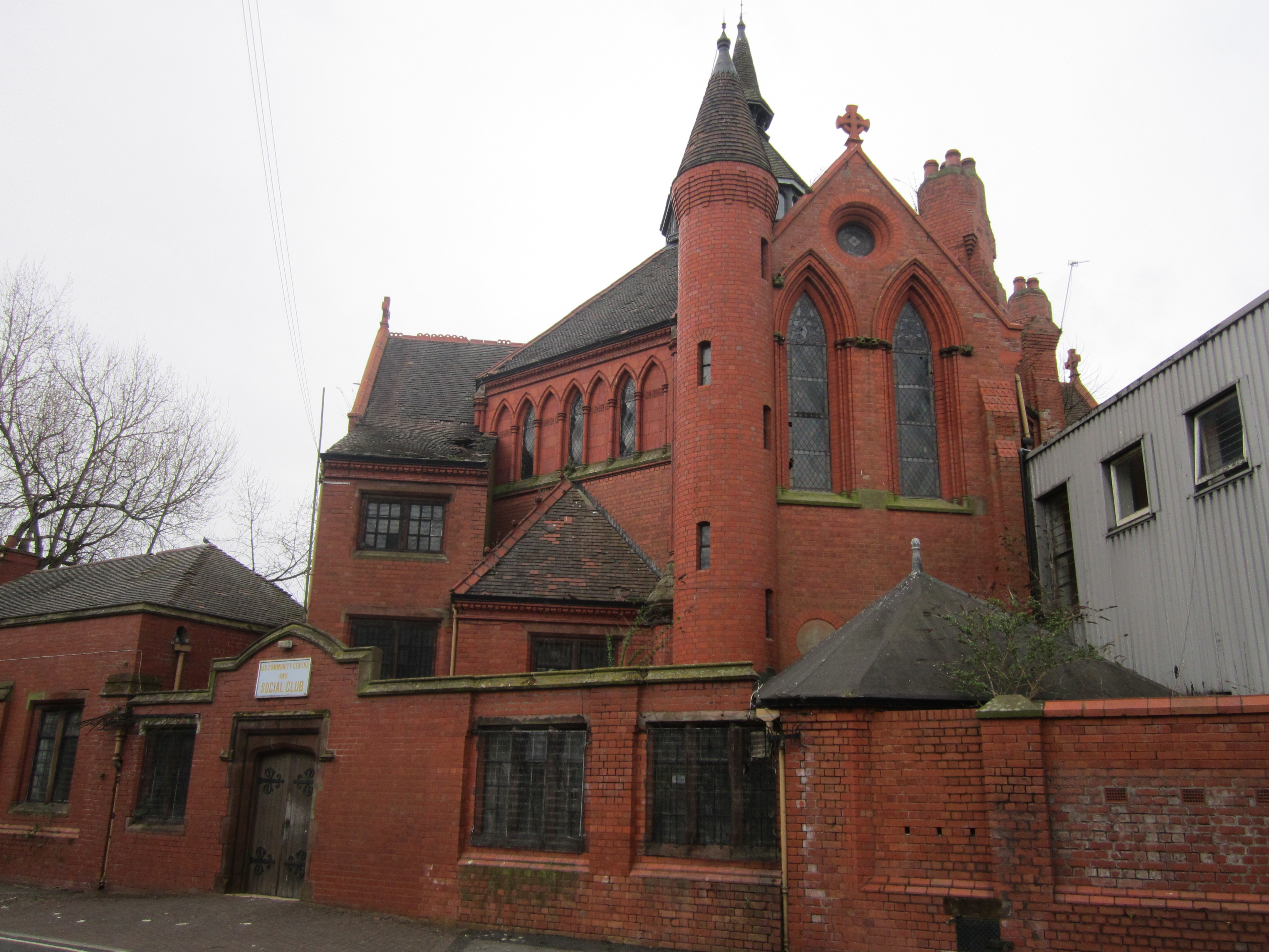 Ibo Community Centre and Social Club as seen from Park Way, Toxteth, Liverpool, England. Formerly the Merseyside Centre for the Deaf.